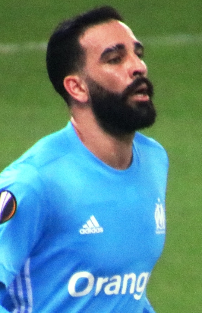 UEFA Euroleague semifinal 2nd leg